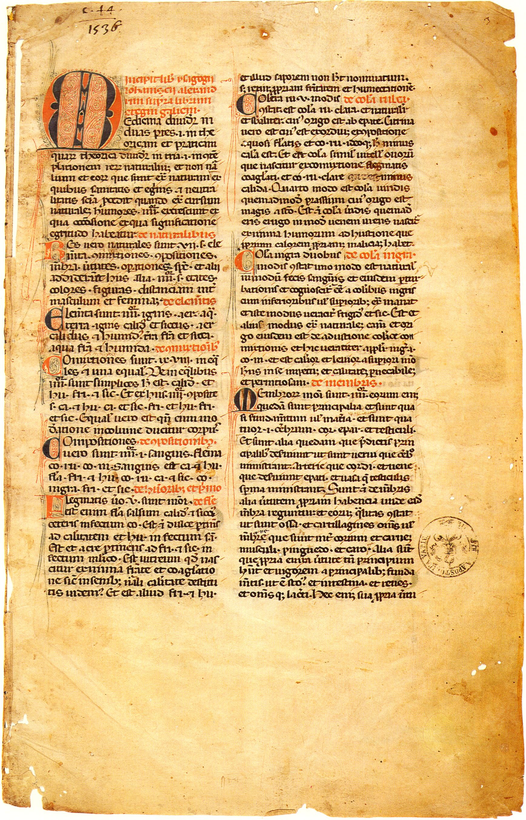 The Articella in ms. Biblioteca Apostolica Vaticana, Vaticanus Palatinus lat. 1102, fol. 3r.